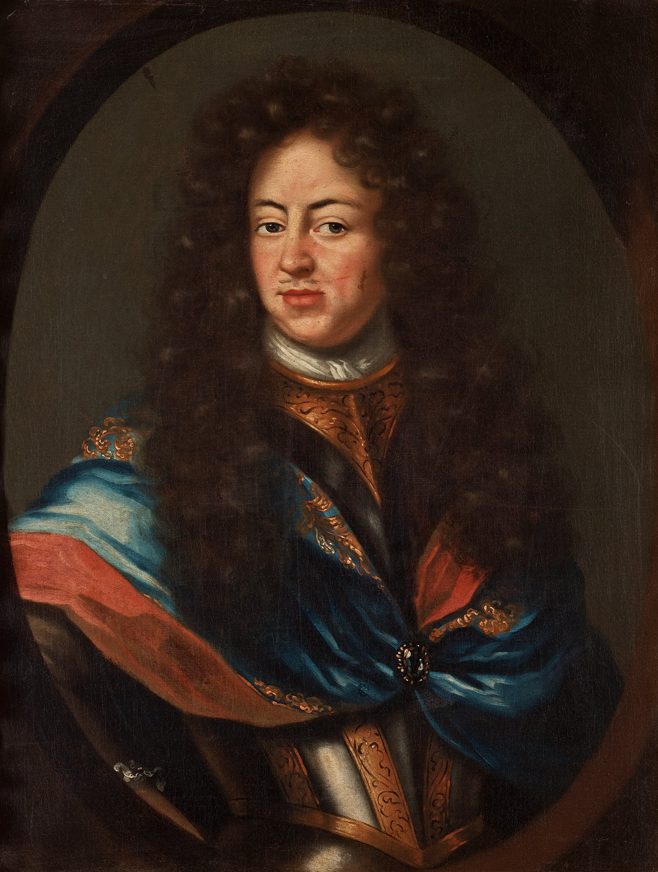 King Charles XI of Sweden